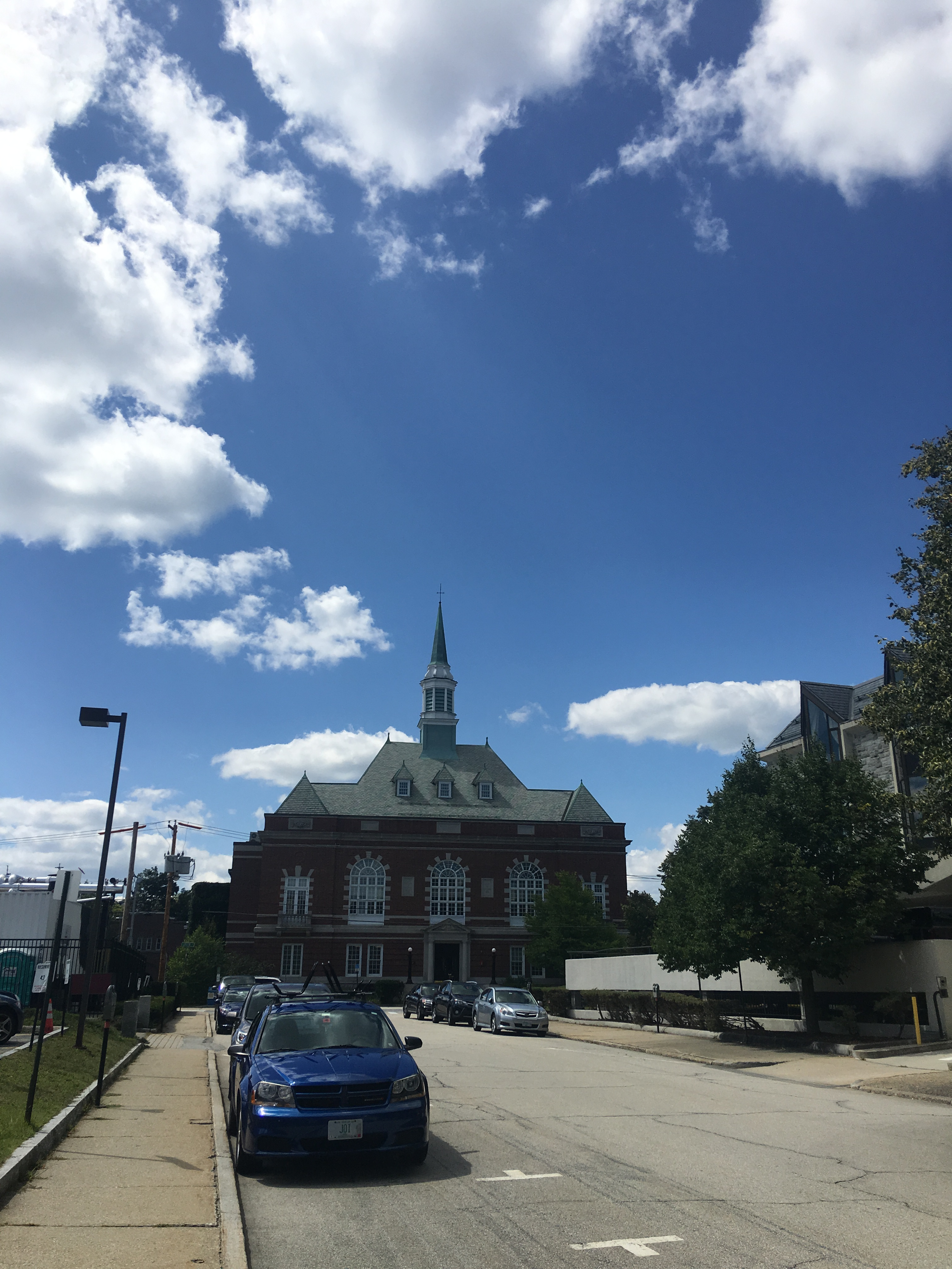 Concord City Hall